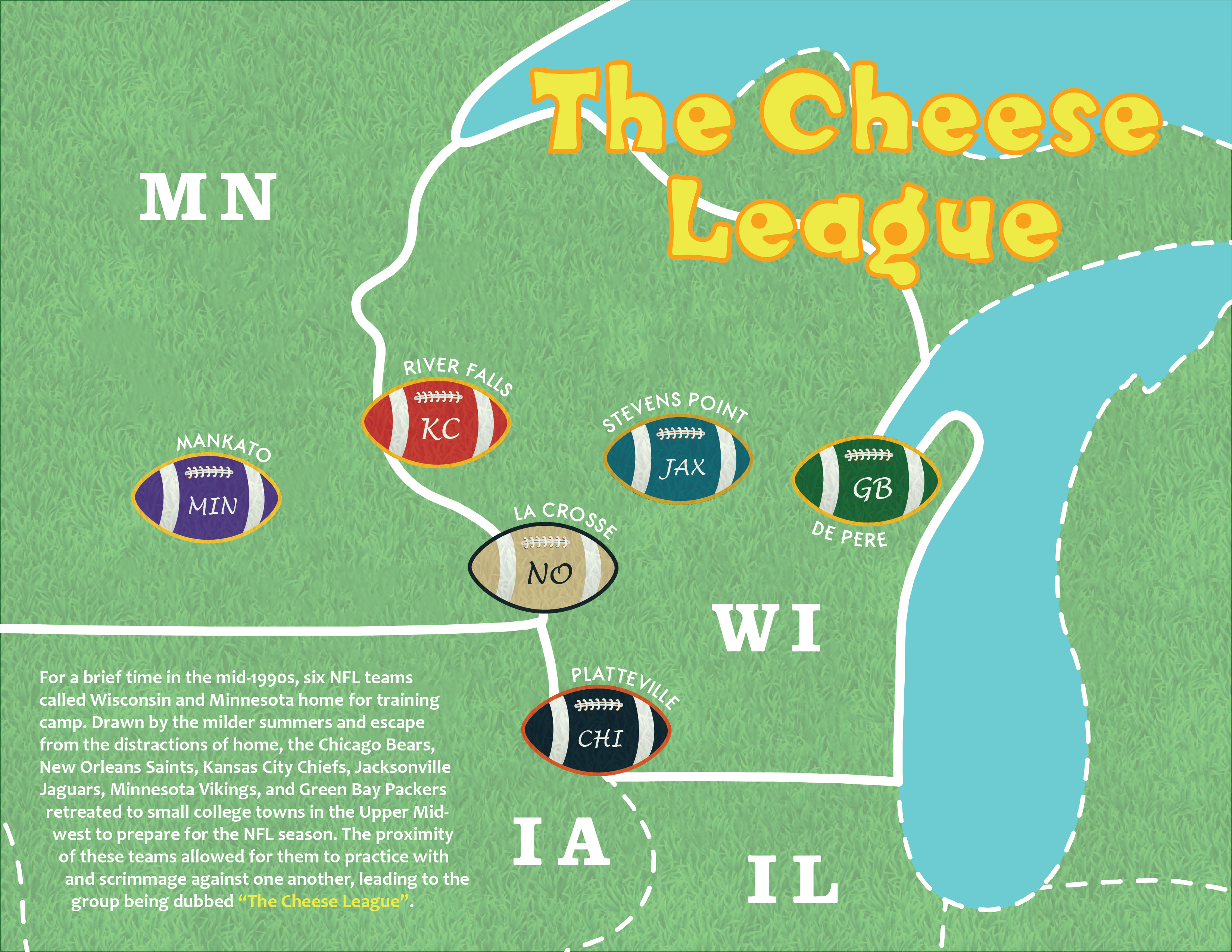 Map depicting where participating franchises held training camp when they were part of the 'Cheese League'.